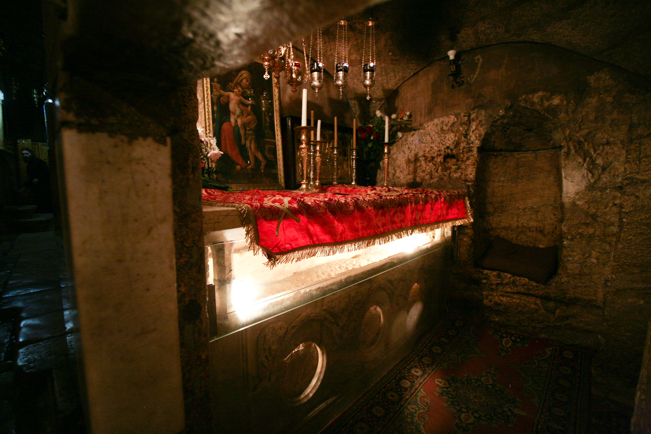 Tomb of the Virgin Mary, Jerusalem